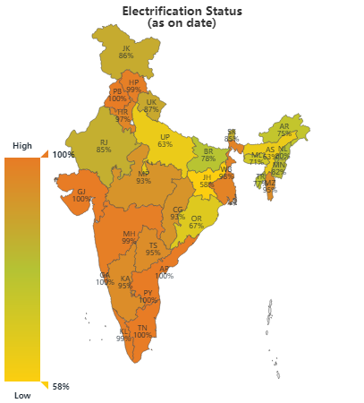 India Rural Electrification status